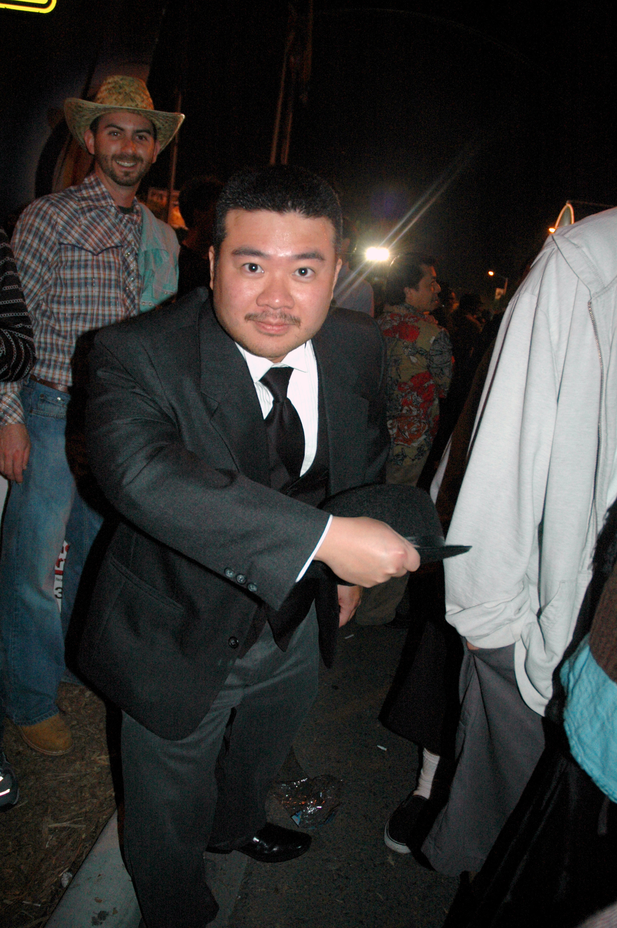 Fancy dress costume of Oddjob (henchman to Auric Goldfinger). Camera: Nikon D70 License on Flickr (2012-03-24): CC-BY-2.0 Flickr tags: West Hollywood, Halloween, Oddjob, Goldfinger, James Bond